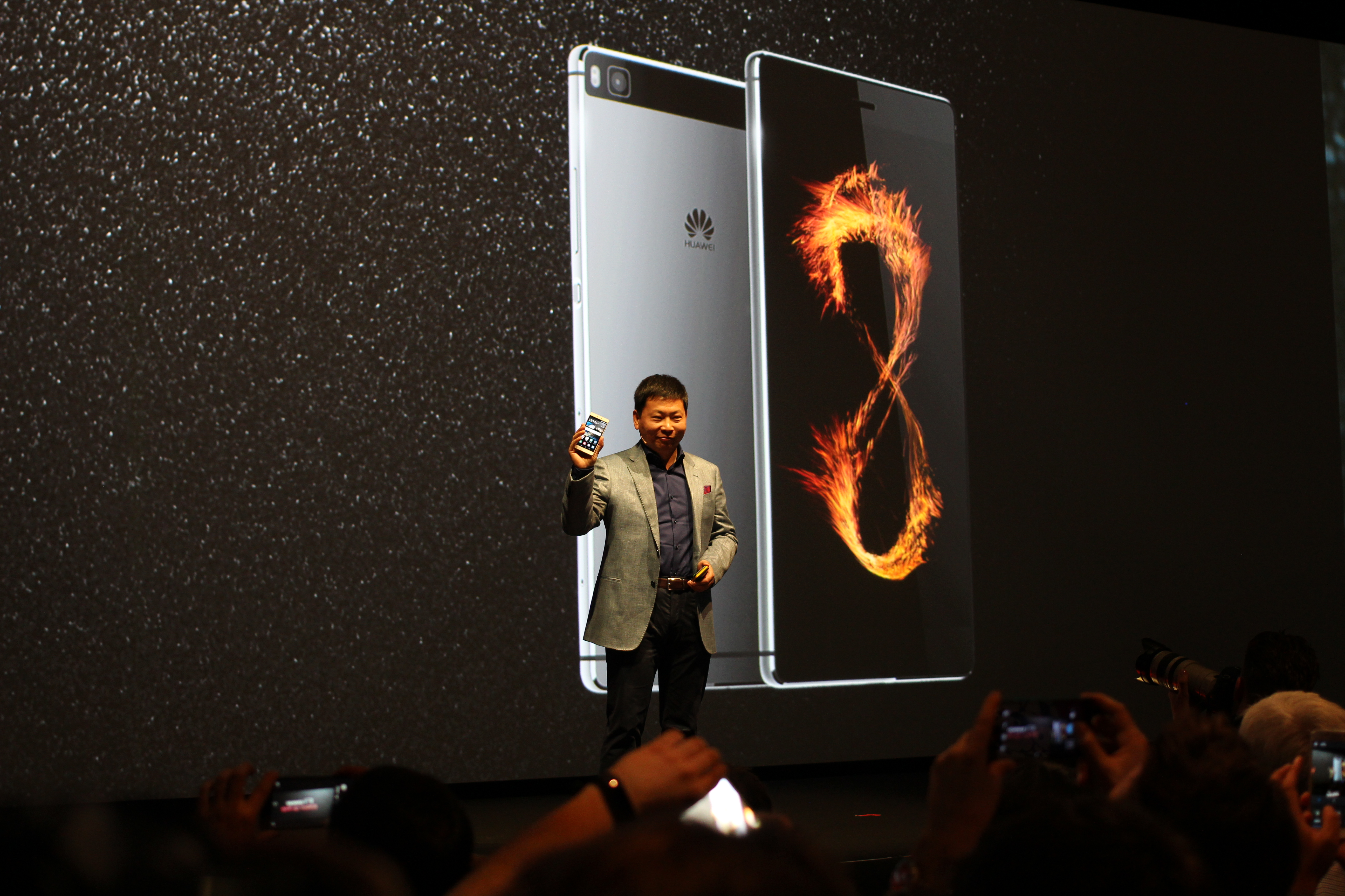 Richard Yu, CEO, Huawei Cunsumer Business Group, with the new P8 smartphone